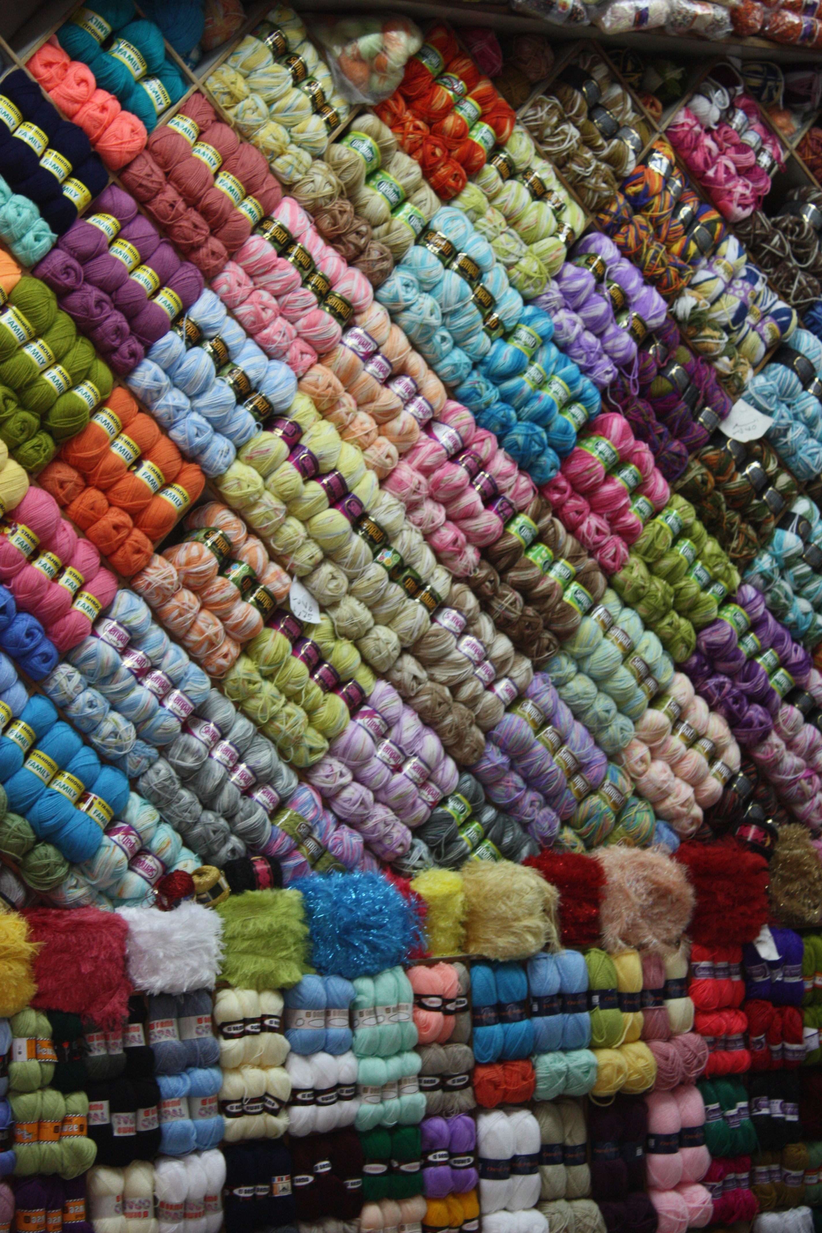 Yarn being sold in the Aleppo souq.